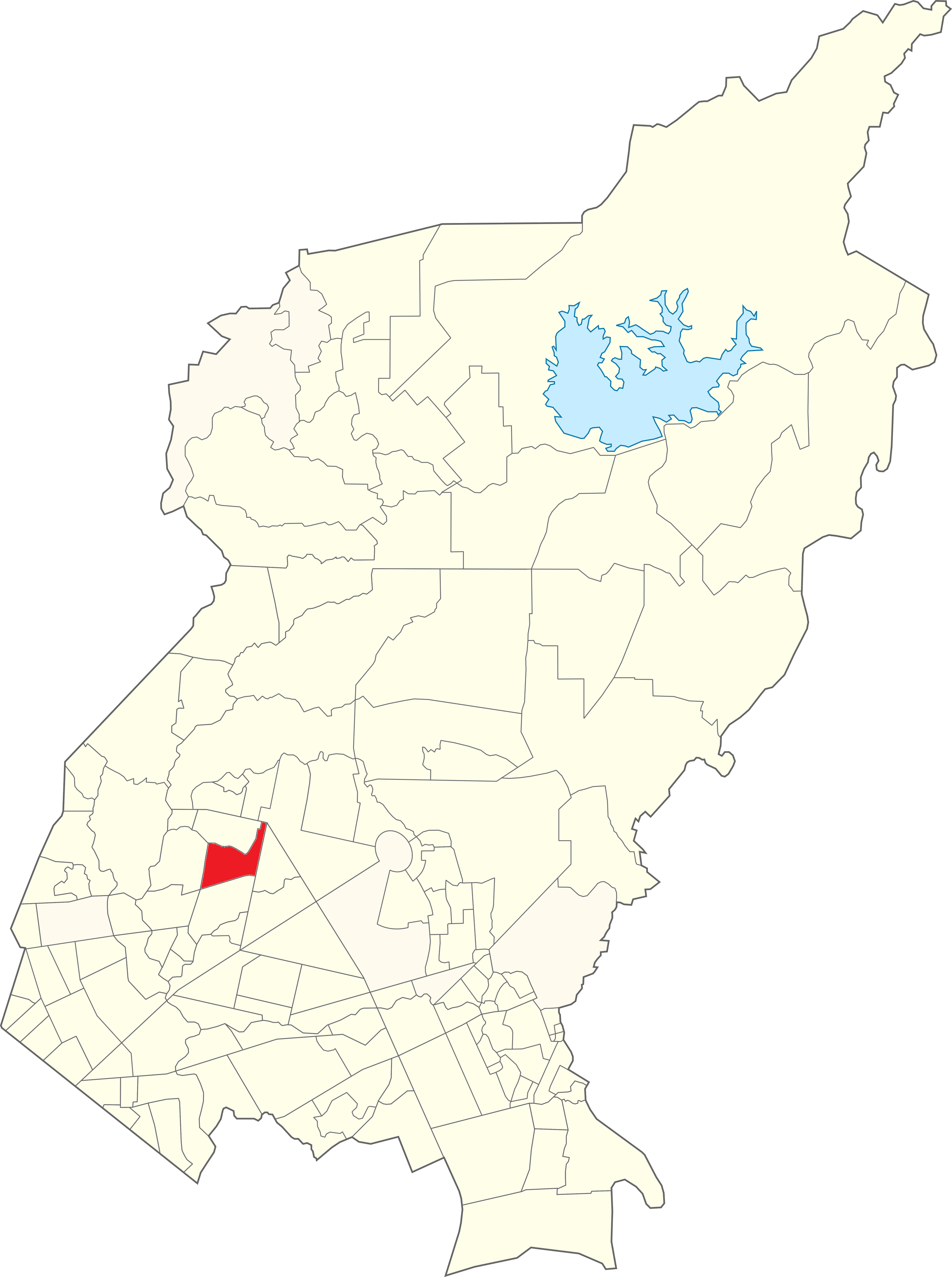 Map of Quezon City showing Bungad